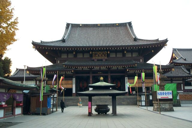 The Main Hall of Heiken-ji (Kawasaki Daishi) temple in Kawasaki, Kanagawa, Japan.